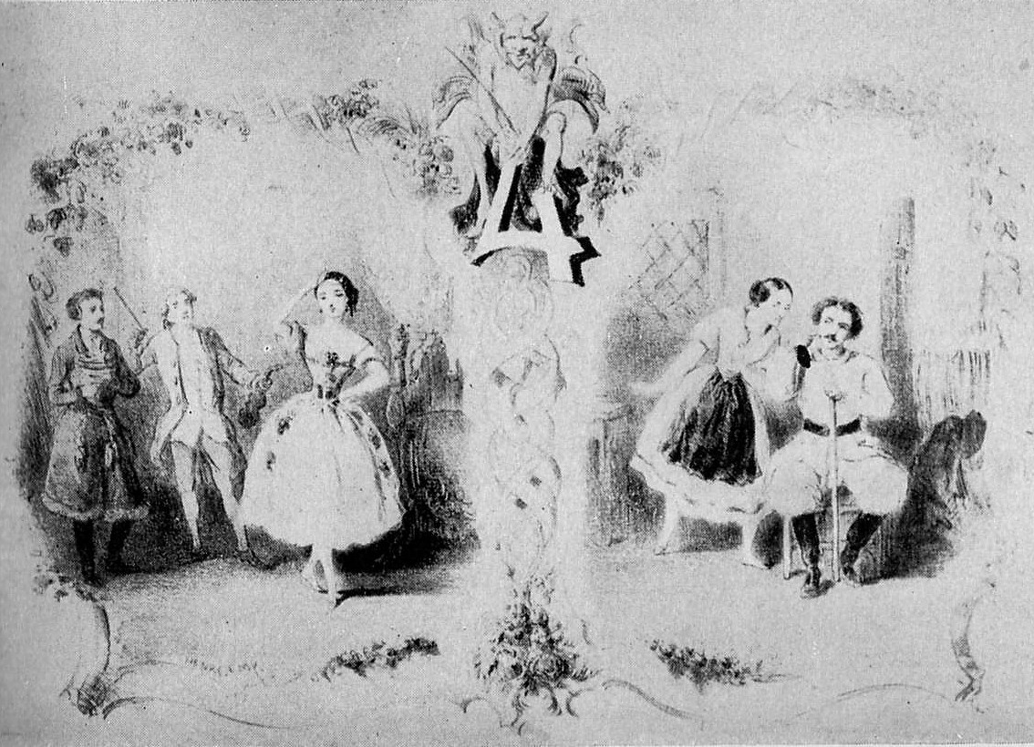 Lithograph by unknwon advertising a performance at the Paris Opera of the ballet "Le Diable a Quatre", Paris, 1845. This comes from my collection and was scanned by me. 15:52, 5 December 2006 (UTC)